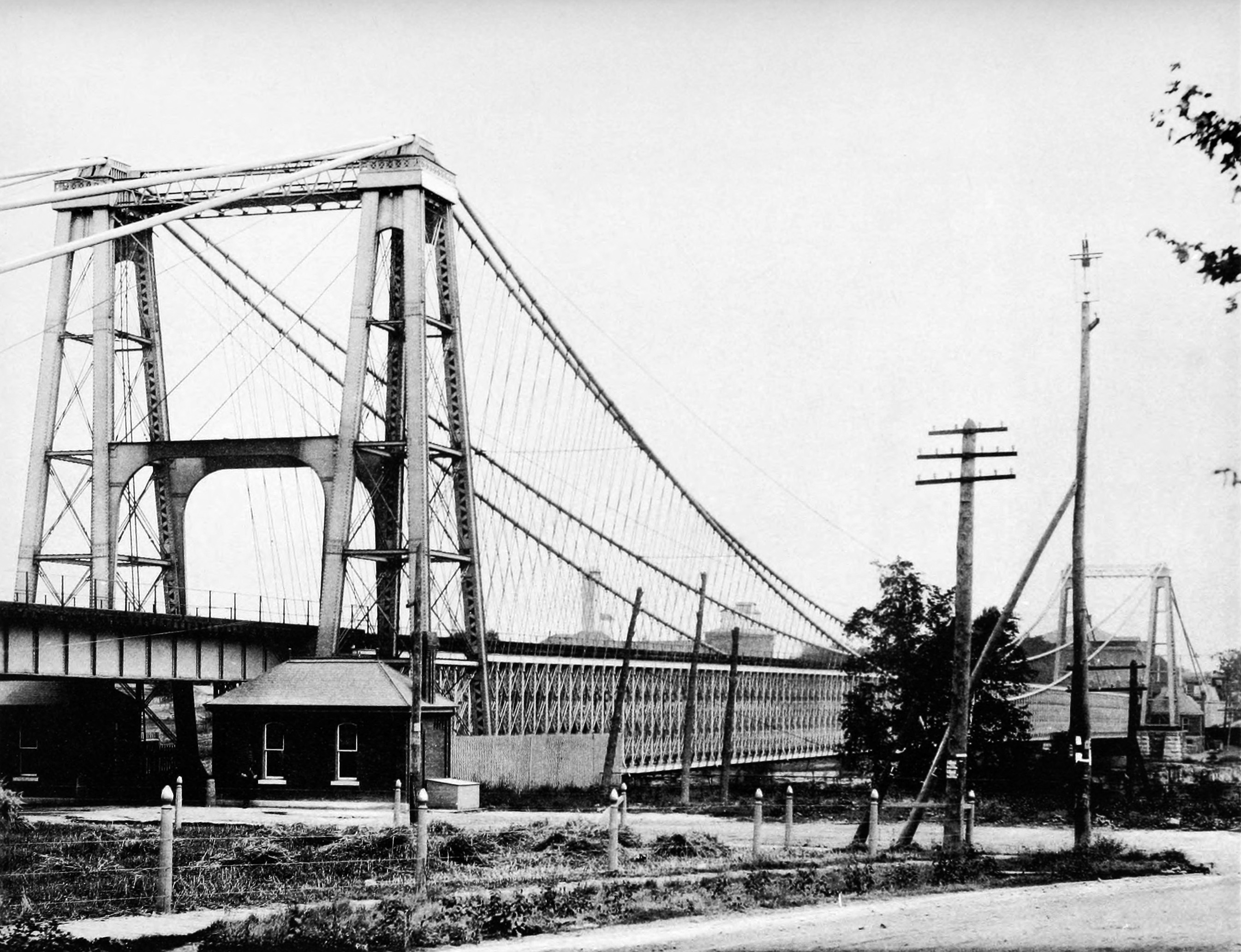 A picture of the Niagara Suspension Bridge after it has been renovated in 1886